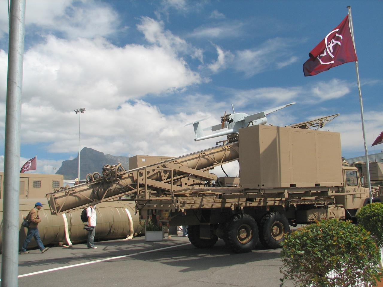 An ATE Vulture UAV catapult launcher on a Samil 100 truck. See where this photo was taken at Yuan.CC Maps.